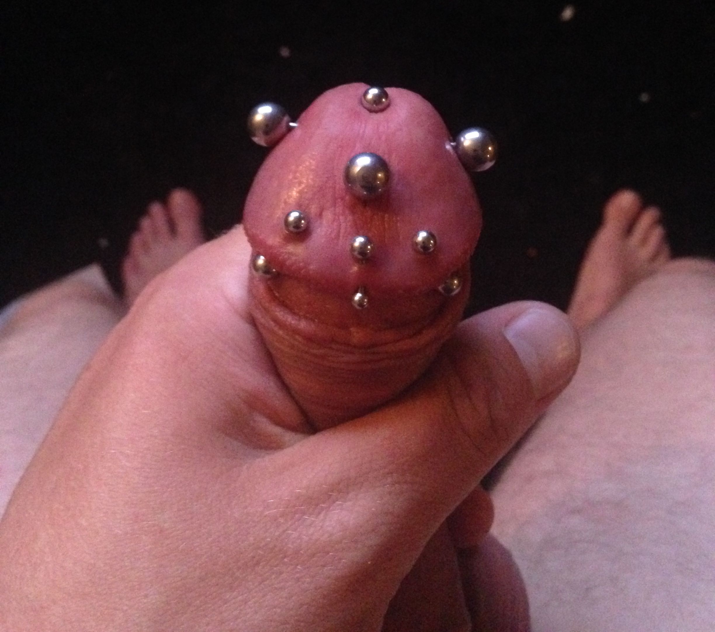 A Picture showing an Ampallang, Apadravya, reverse PA, and 3 dydoes